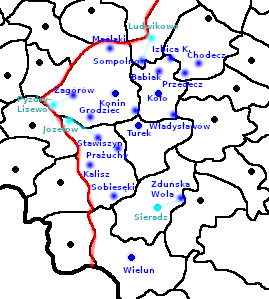 Lutheran diocese of Kalisz, 1939, red line - 1914 border